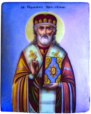 Saint German of Kazan